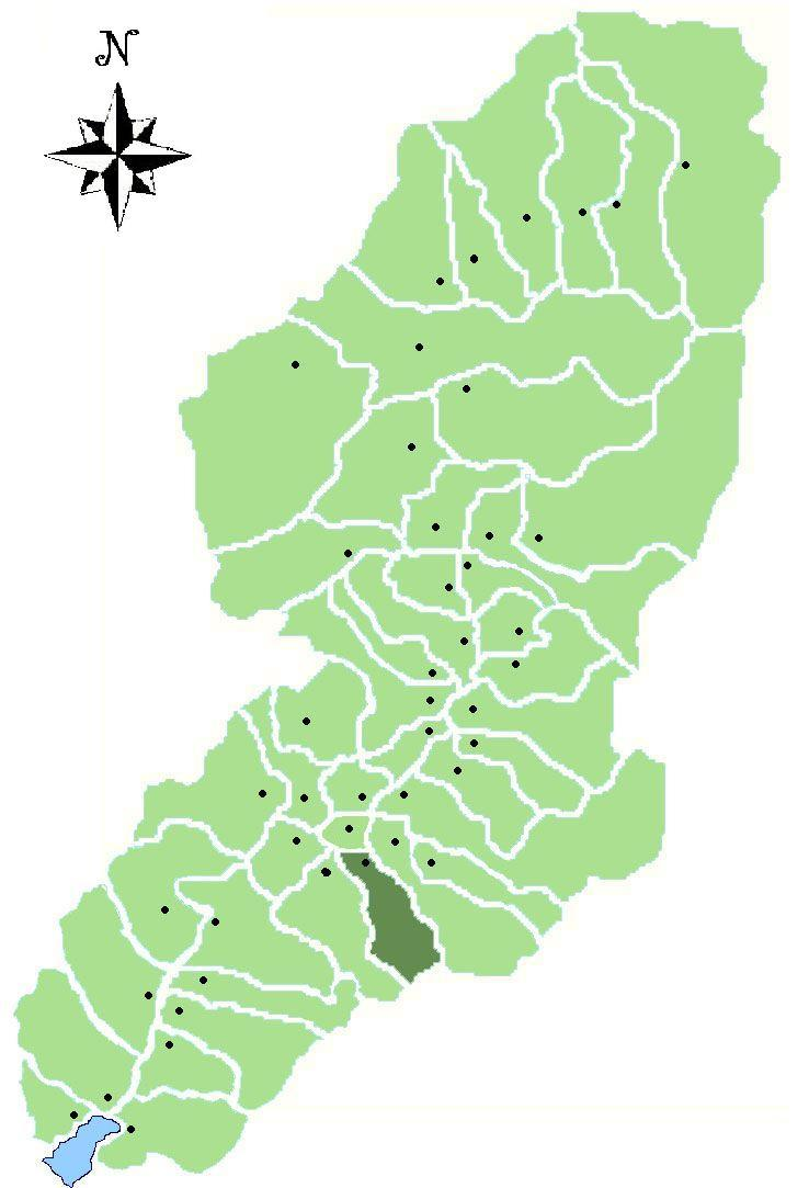 Map of the Comune di Berzo Inferiore, Valle Camonica